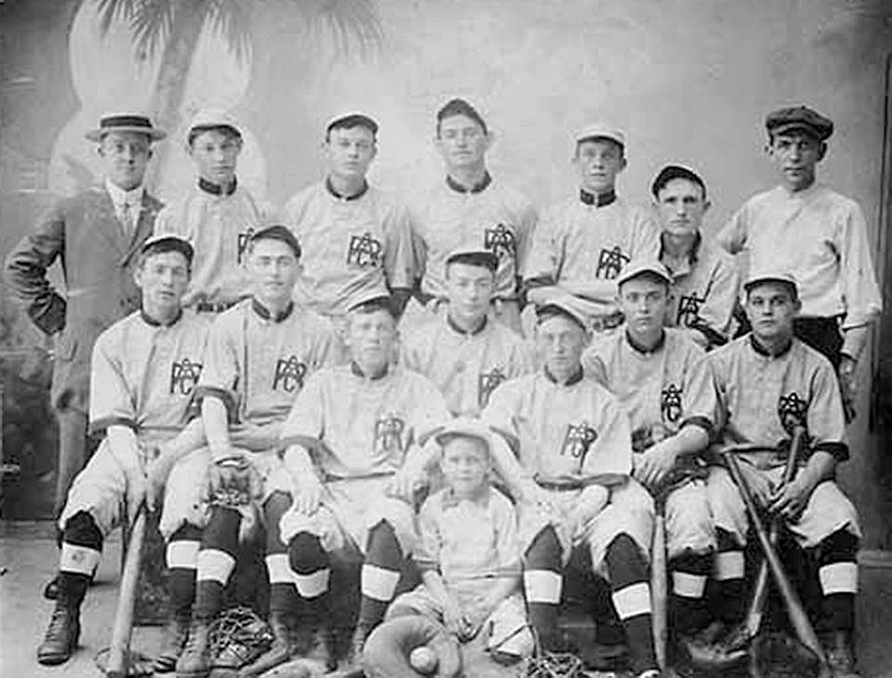 Allentown Peanuts Baseball Club A photo of the 1898 "Allentown Peanuts" professional baseball team that played at Manhattan Park in Rittersville for the 1898-1900 Atlantic League Manhattan Park was located northwest of the intersection of Hanover Avenue and Club Avenue.